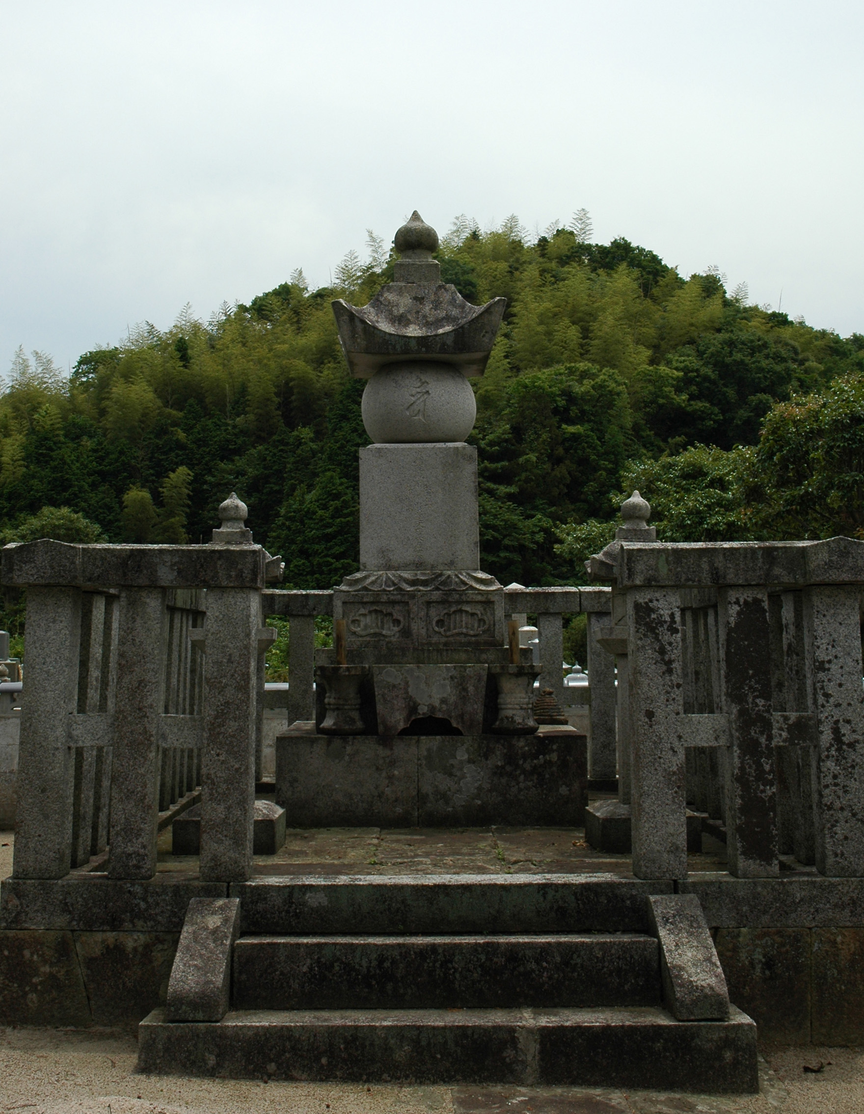 tomb of Matsudaira Naoaki in Joanji graveyard in Hirosecho, Yasugi, Shimane, Japan